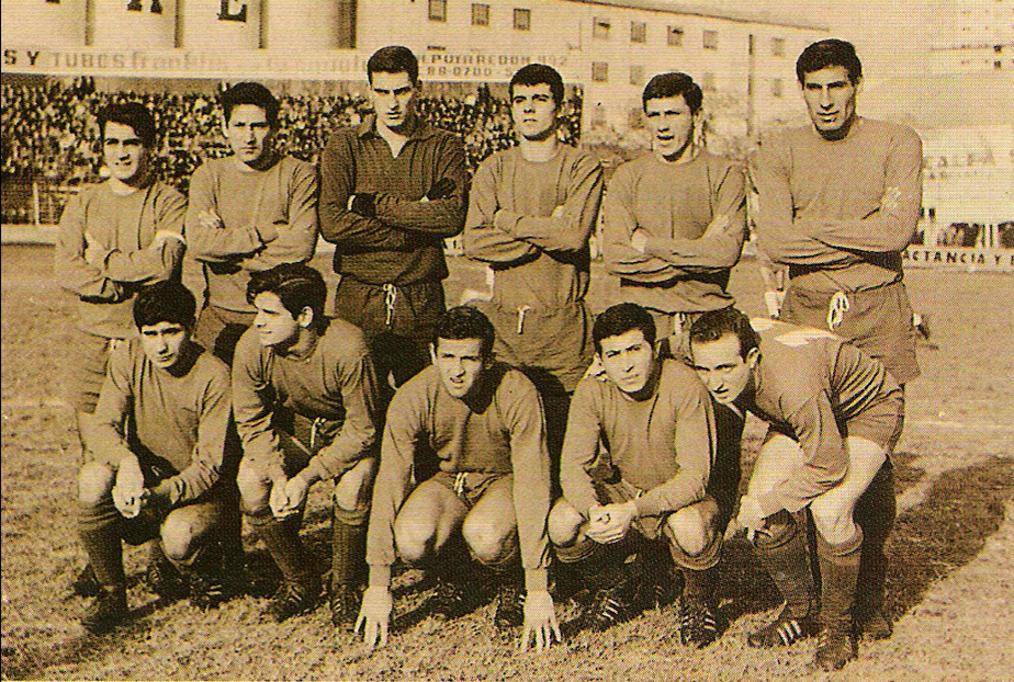 Team of Deportivo Español.